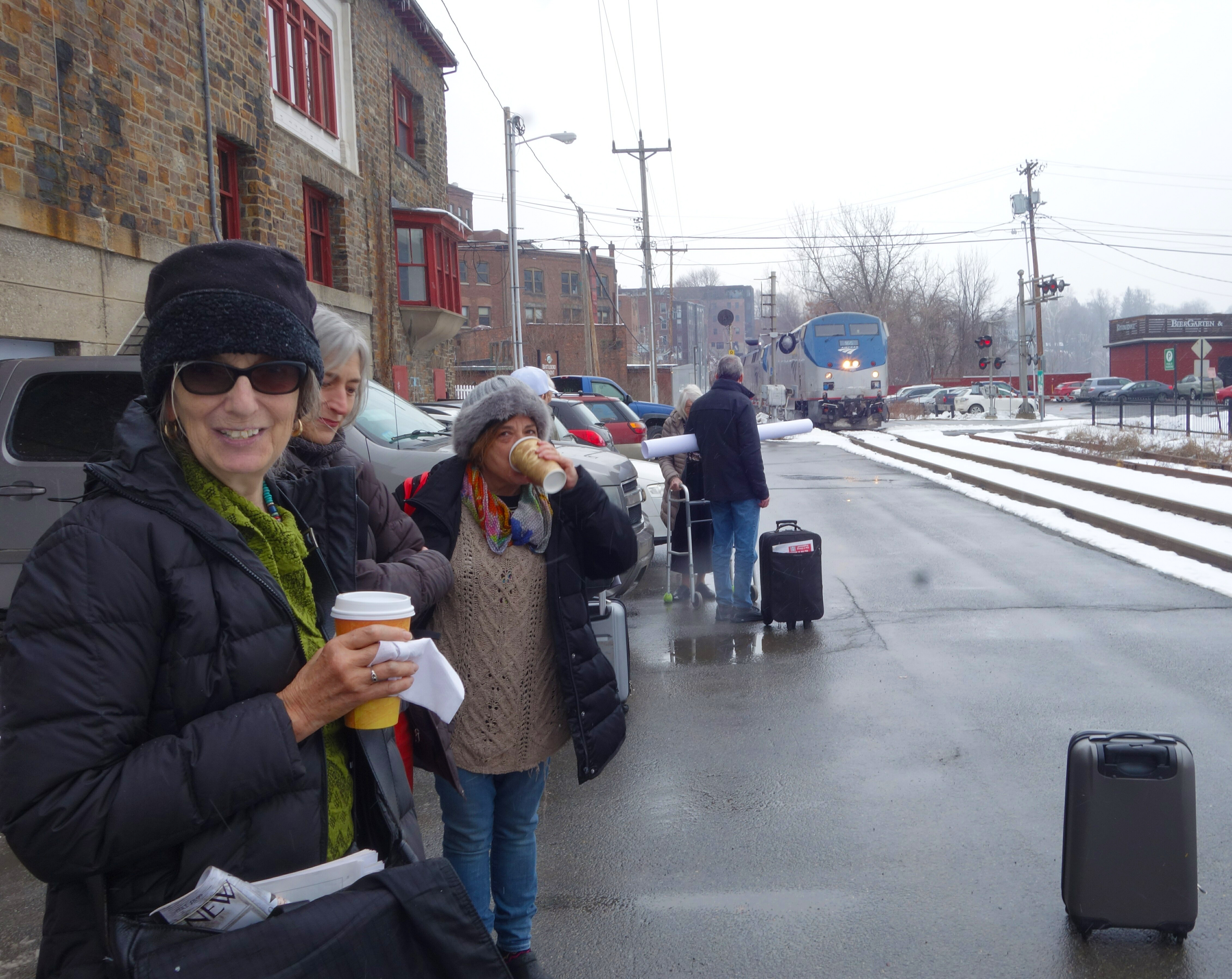 The poet, Verandah Porche, at the Brattleboro Amtrak station as the train rolls in. She is traveling to New York to see her daughter, son-in-law, and granddaughter. February 10, 2016, 1 PM.